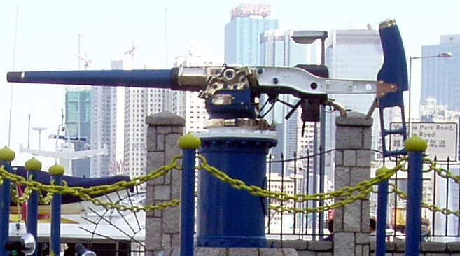 Photograph of the Jardines Noonday Gun in Hong Kong. It is a QF 3 pounder Hotchkiss. This is a clip from the full image : File:Noon-day Gun.JPG